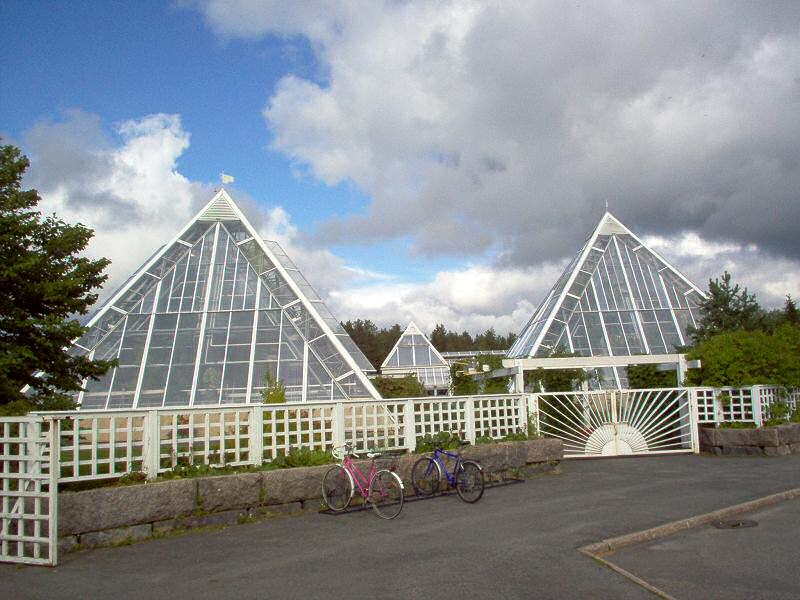 Glass pyramids Romeo (right) and Julia (as in Romeo & Juliette), with the Fern Room in between, in the Potanical Garden of Oulu University